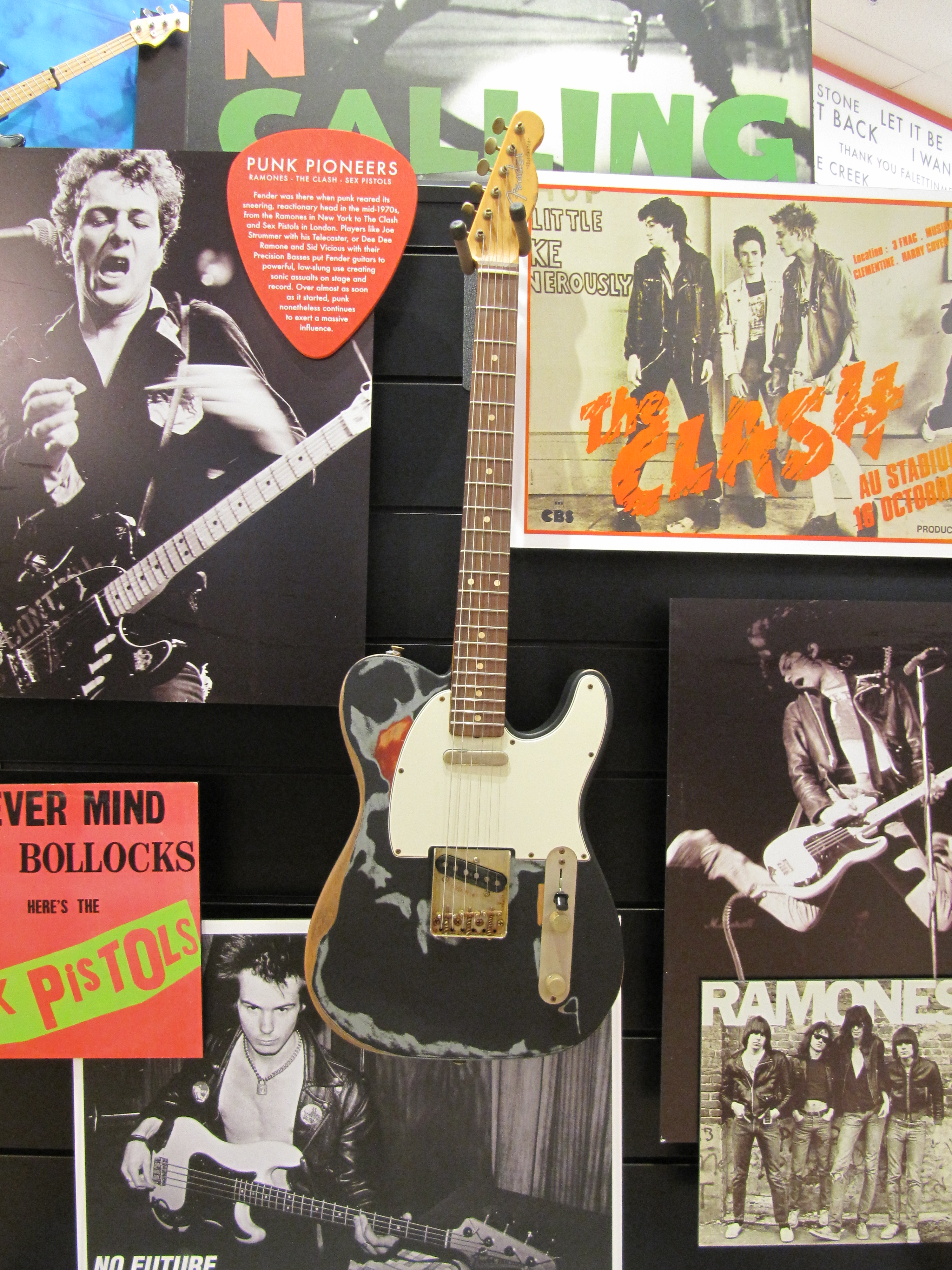 Fender Guitar Factory museum 06. punk model (Joe Strummer relic)